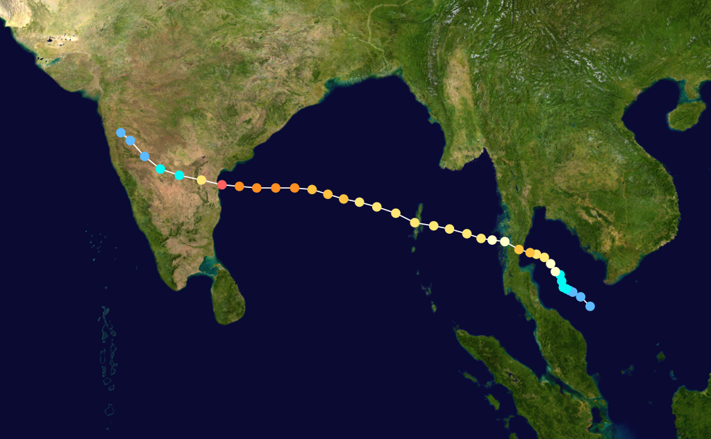 Typhoon Gay (1989) track. Uses the color scheme from the Saffir-Simpson Hurricane Scale.